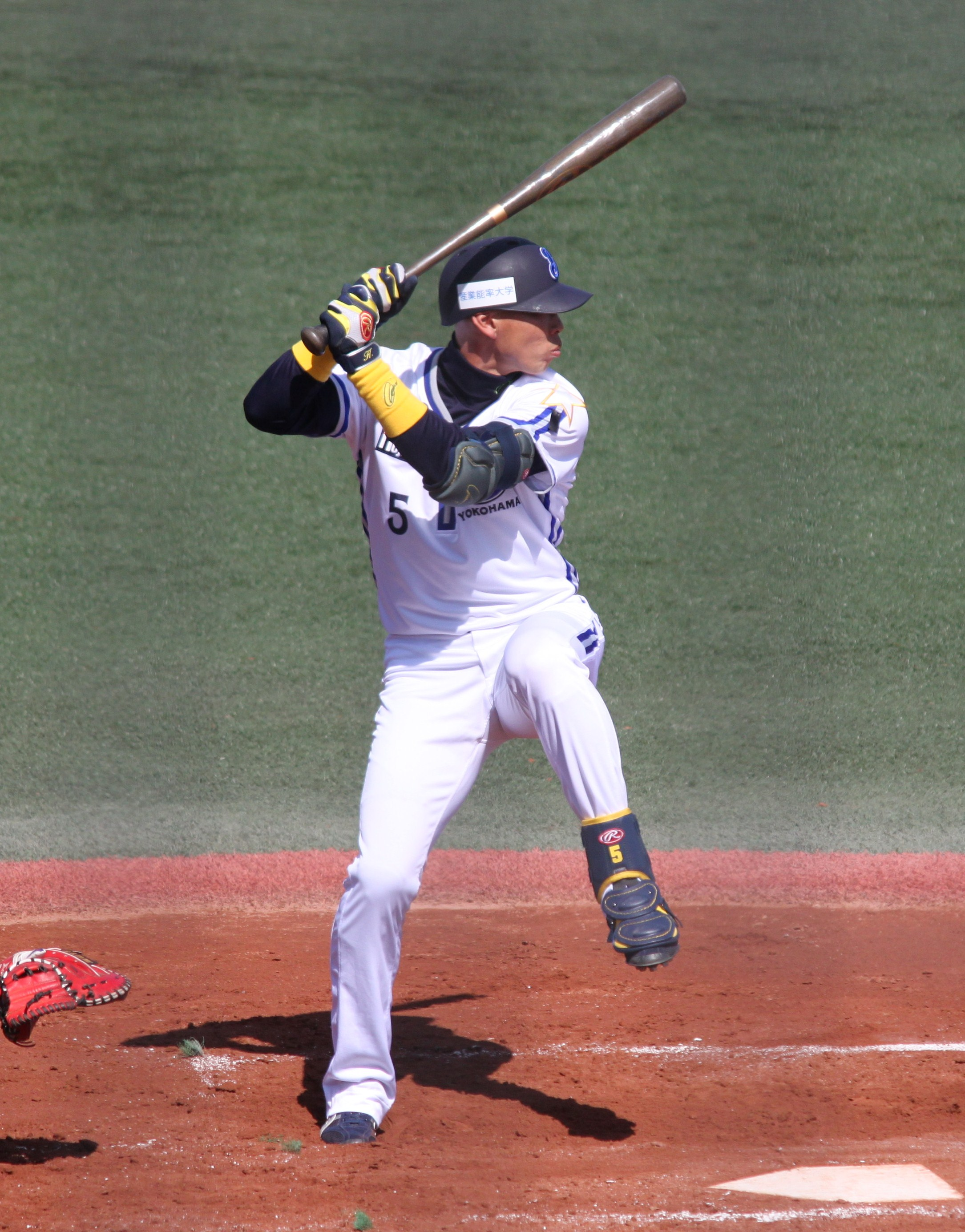 Hichori Morimoto, outfielder of the Yokohama BayStars, at Yokosuka Stadium.